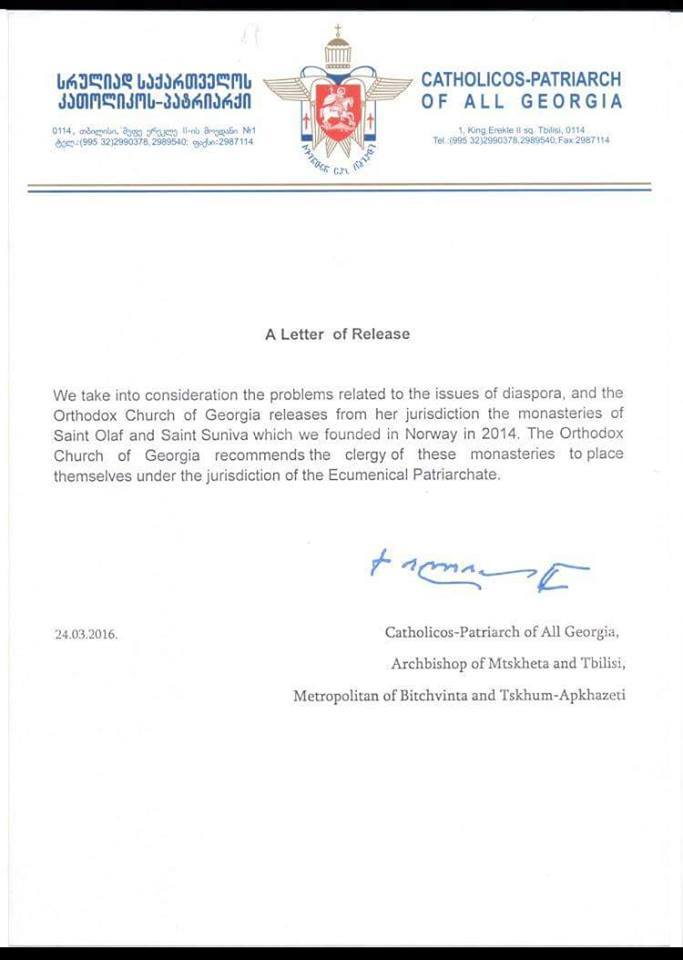 Release from the jurisdiction of PG monasteries of St. Olaf and St. Sunniva